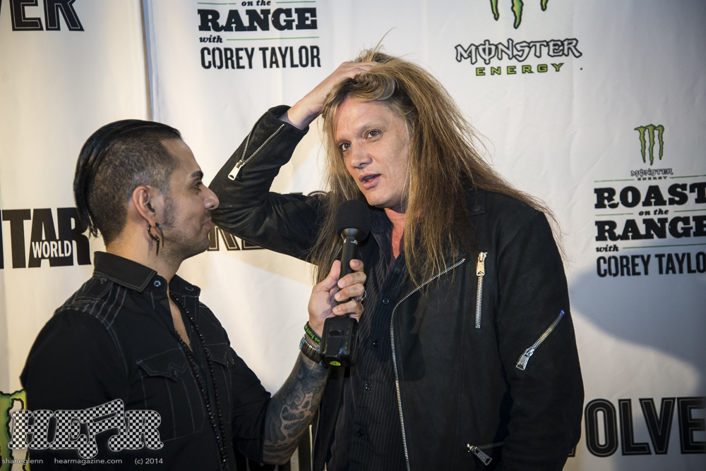 Roast on the Range 2014 Featuring Corey Taylor